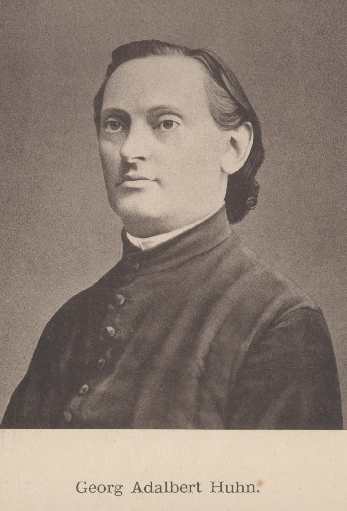 Georg Adalbert Huhn, Stadtpfarrer u. Landtagsabgeordneter in München